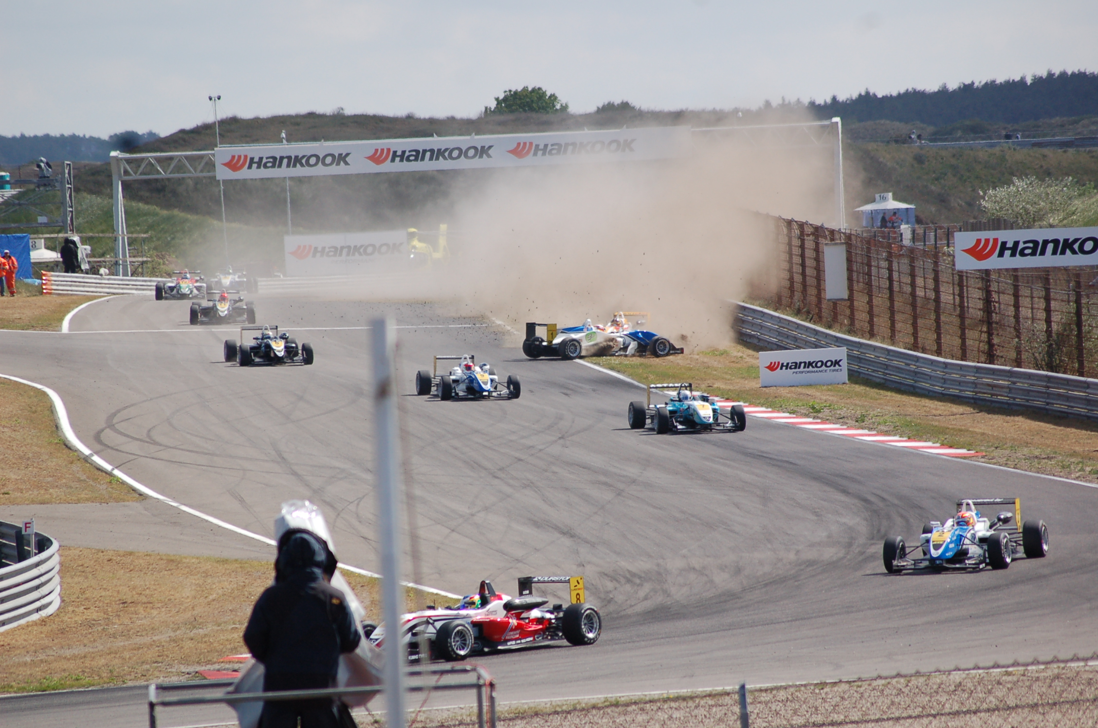 Race-accident of Daniel Abt and Marco Wittmann in Zandvoort 2011